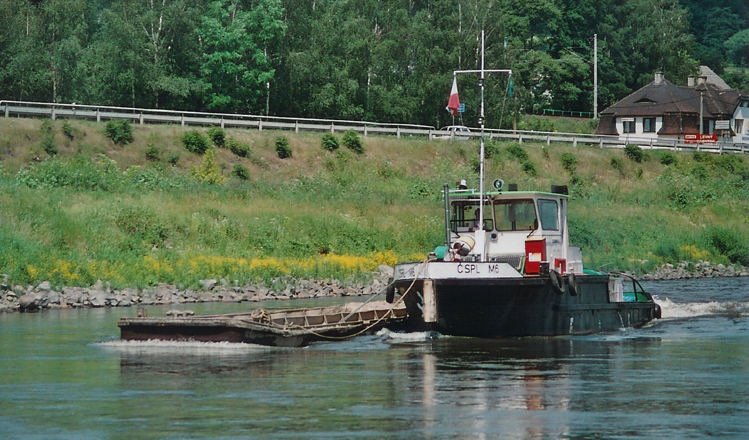 Side tug convoy at Elbe river